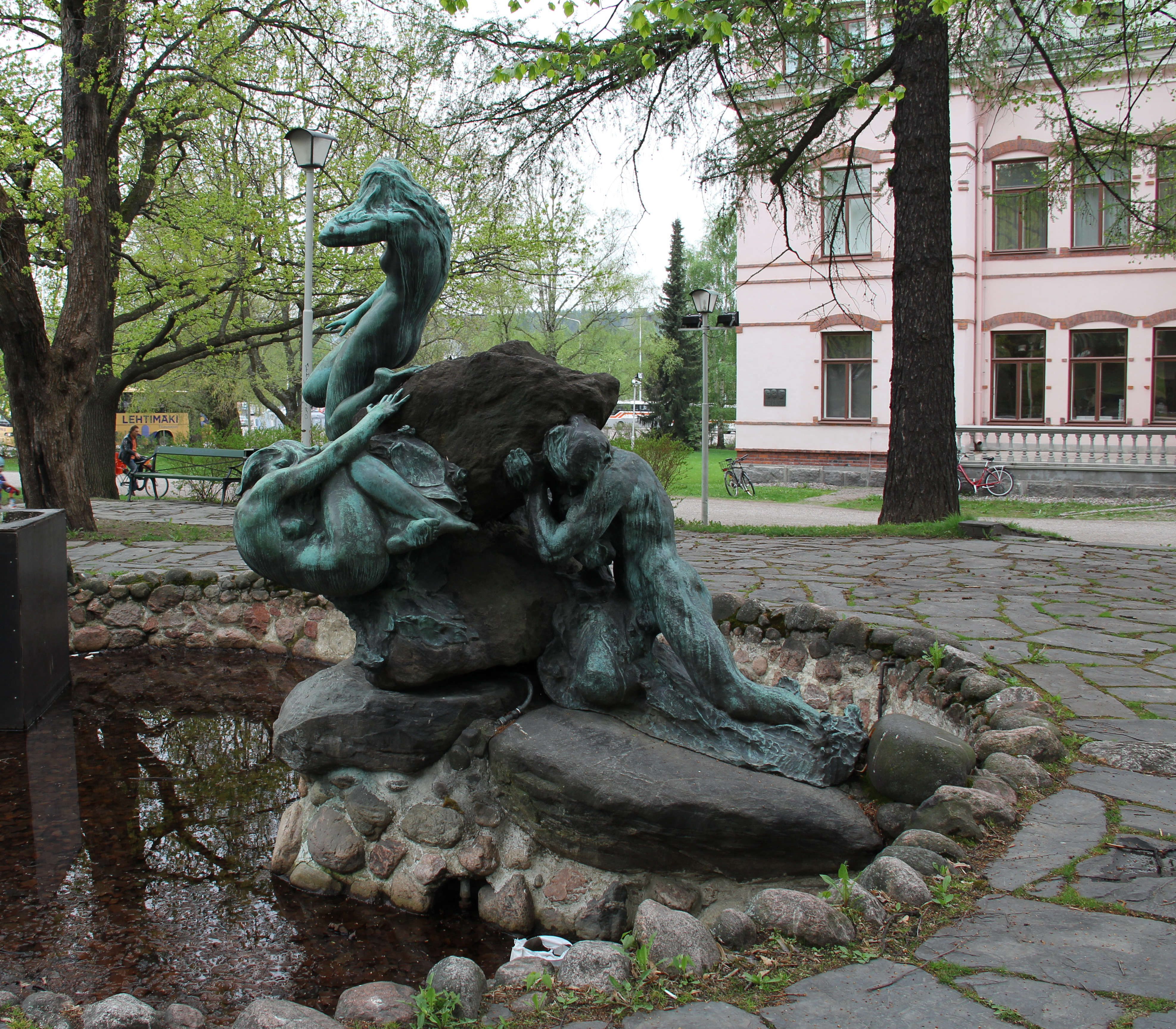 Aino Fountain. Fountain statues by Finnish sculptor Emil Wikström (1864–1942). The fountain was unveiled in 1912. It is located in Fellman Manor Park in Lahti, Finland. The fountain includes bronze statues and fountain nozzels in the shape of fish, big natural stones as pedestals and a pool. Part of the statues and equipment are covered for the winter.